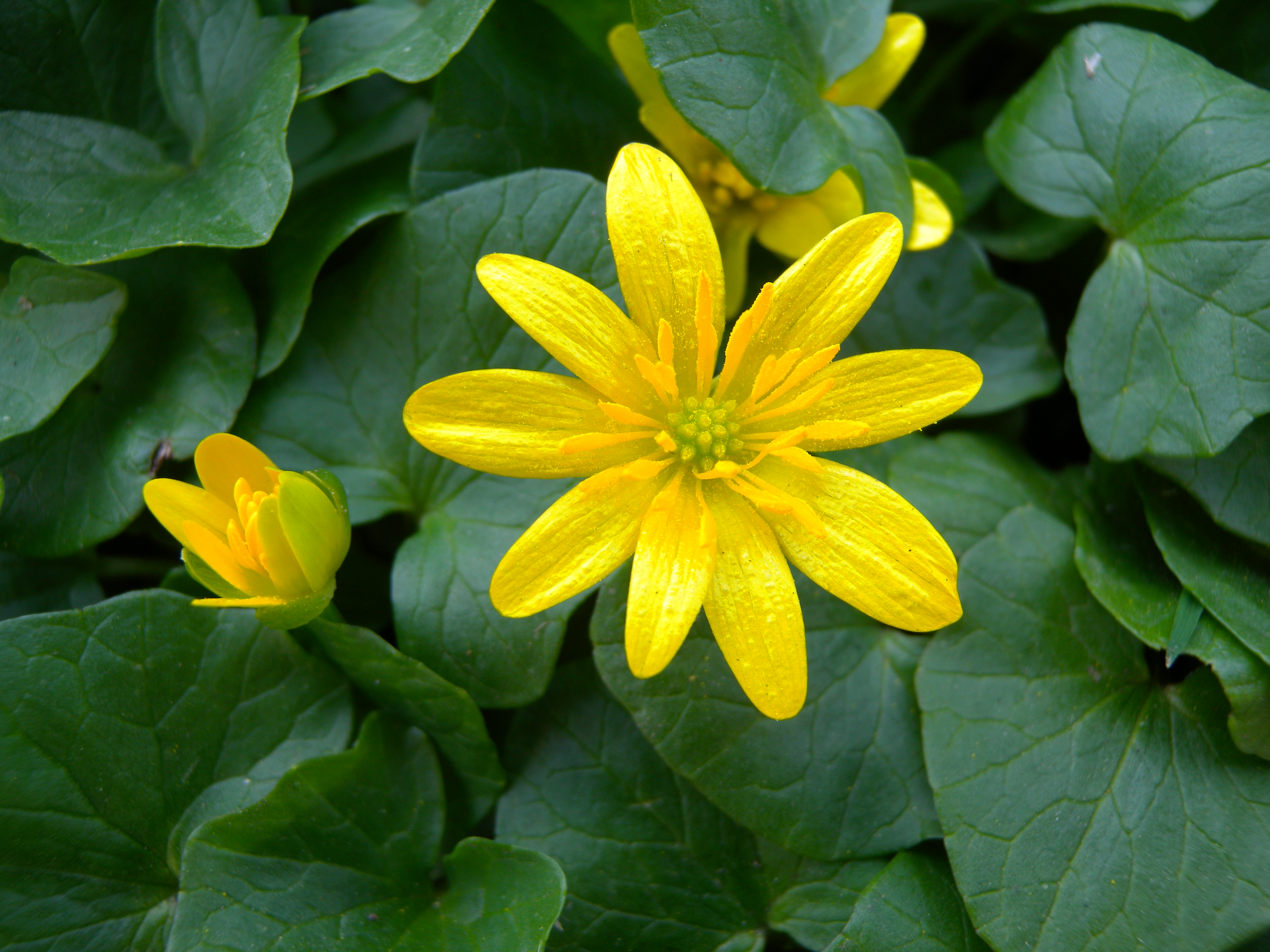 Ranunculus ficaria (Ranunculaceae); Alte Aare near Aarberg, Canton of Bern, Switzerland